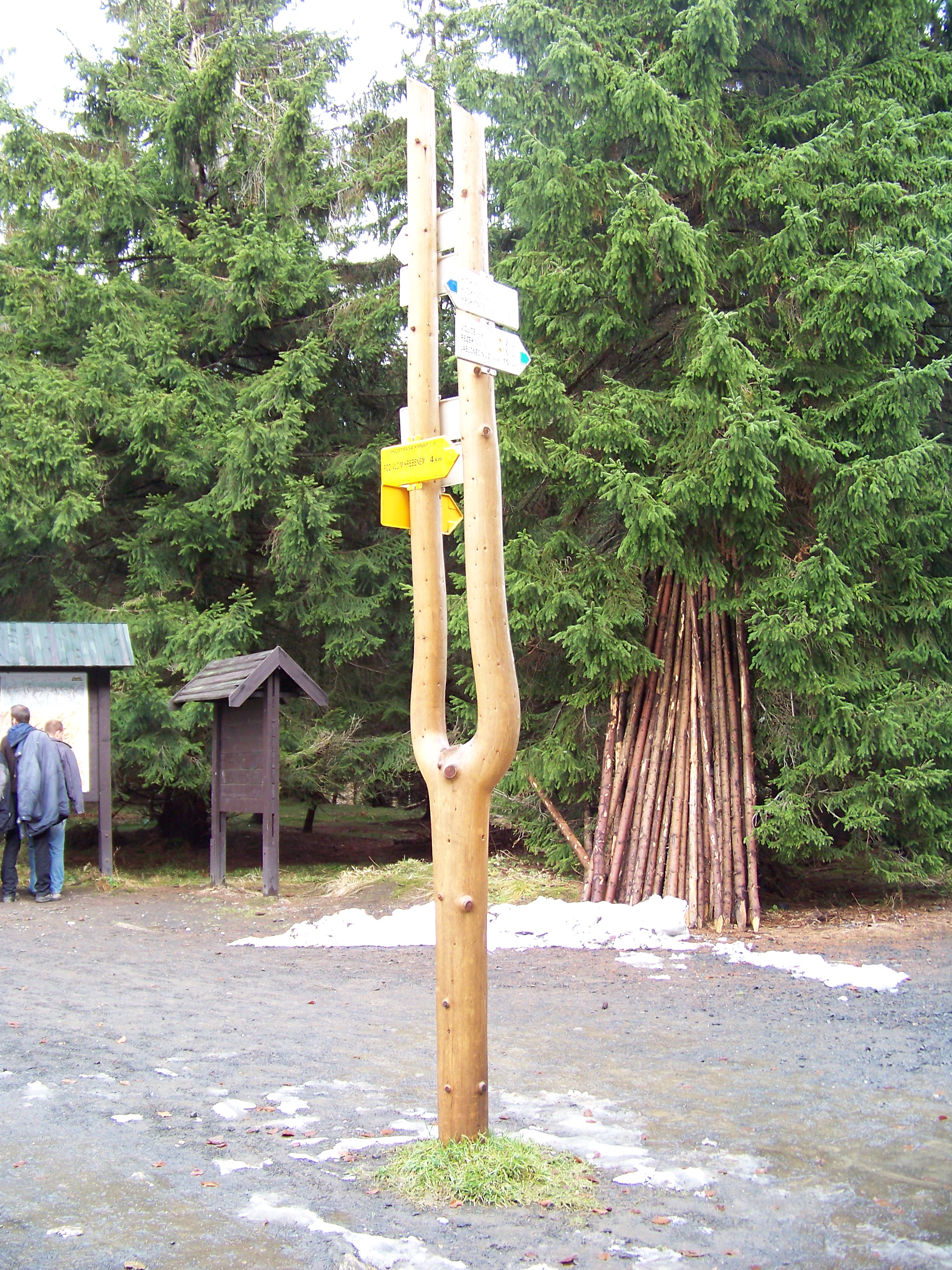 Rokytnice nad Jizerou-Rokytno, Semily District, Liberec Region, the Czech Republic. A hiking fingerpost under Dvoračky.